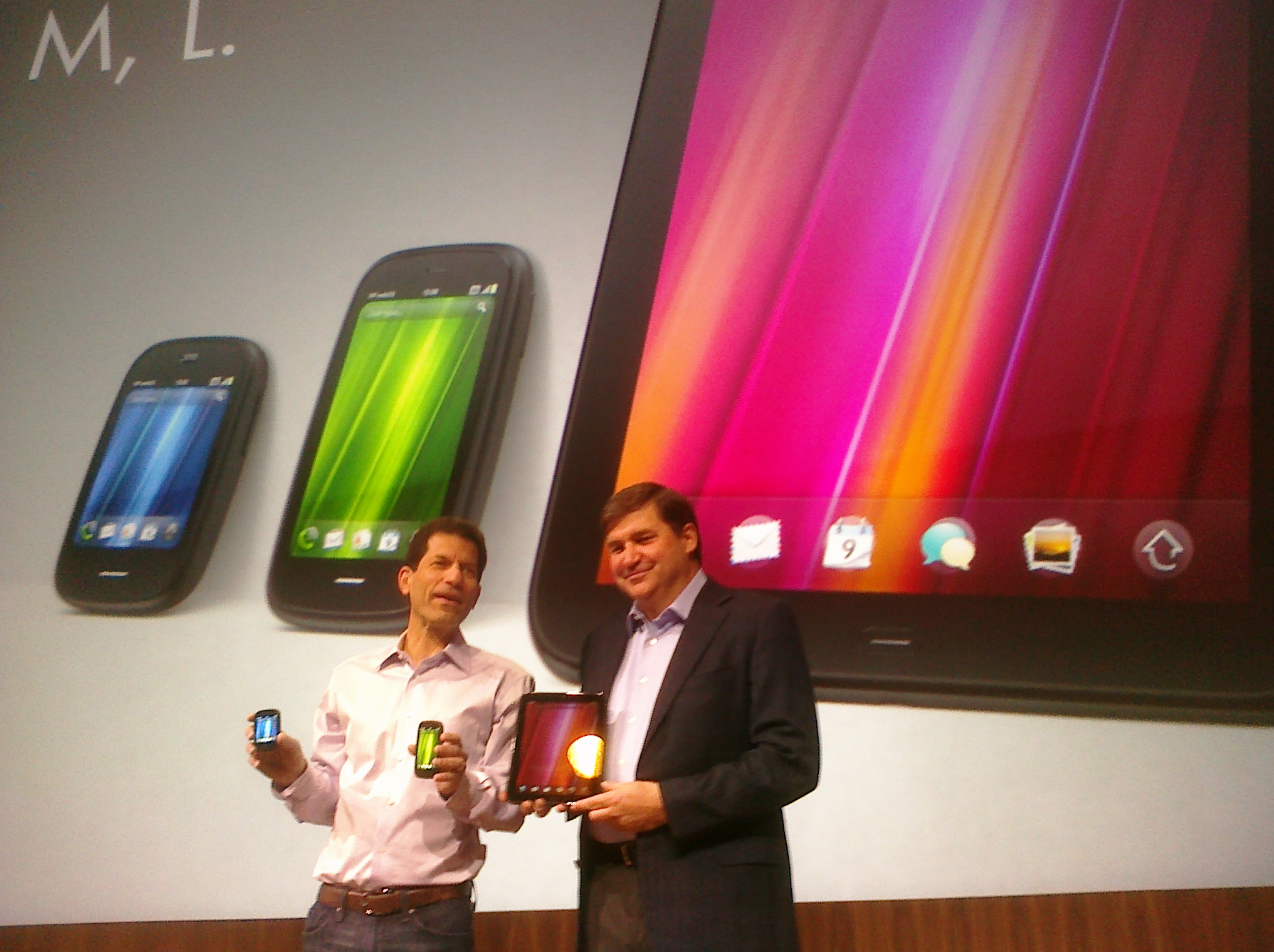 HP executives Jon Rubinstein & Todd Bradley presenting WebOS phones in 2011.